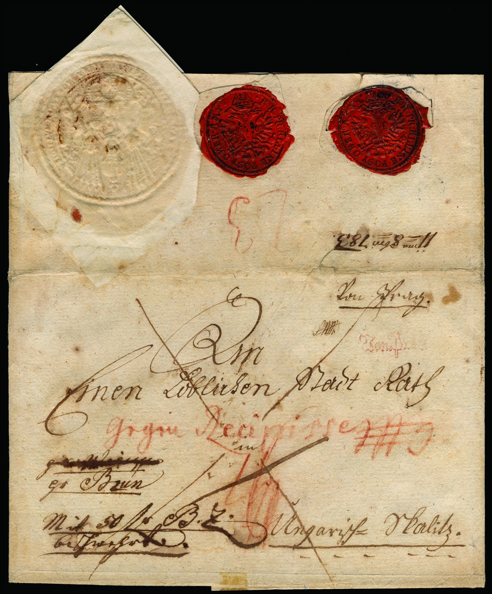 A unique money letter with 50 florins in the form of banknotes from Prague to the town councillors of Ungarisch Skalitz (today's Skalica, Slovak Republic), paid in full on posting and sent by registered mail on 11.9.1783. The content of the letter was counted on posting and sealed according to the valid regulations with one seal of the sender and two seals of the office of posting, i.e. an office of the so-called Lesser or Clapper Post. The letter was dispatched for transportation by the Chief Post Office in Prague and cancelled with the first type of post office stamp, the single-line stamp "Von Prag". The Lesser or Clapper Post was operated in Prague as a private post service in the years 1782-1789. The stamp "Von Prag" began to be used in 1782.